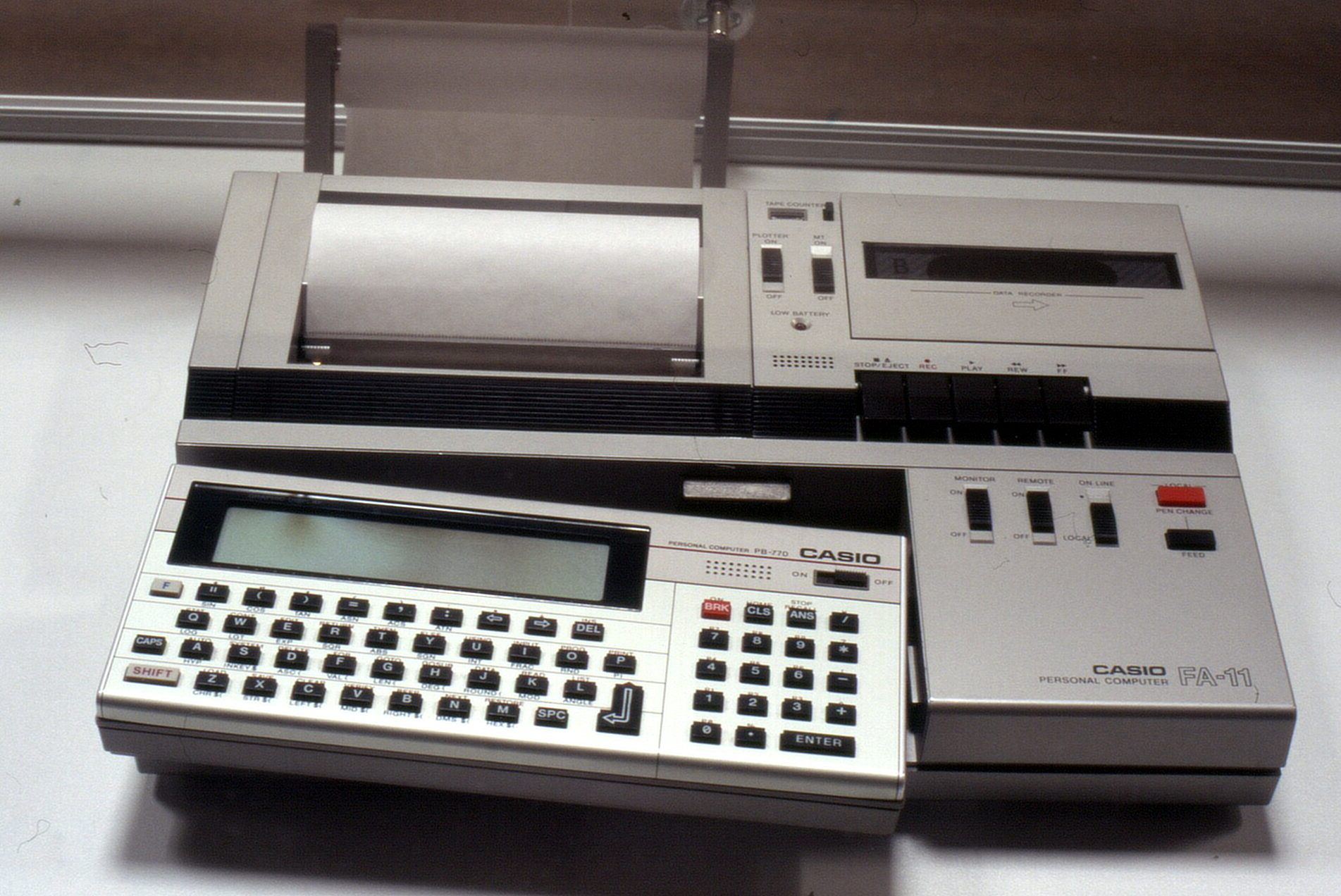 {Casio PB-770 pocket computer, with Casio FA-11 extension dock. On display at the Musée Bolo, EPFL, Lausanne.